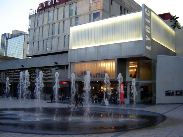 The Lyric Theatre, Hammersmith, London. 28 September 2009. Photographer: Fin Fahey